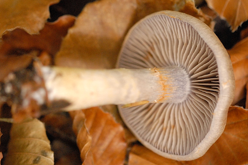 Cortinarius torvus from Commanster, Belgium. If you think this is a different taxon, please contact James Lindsey.